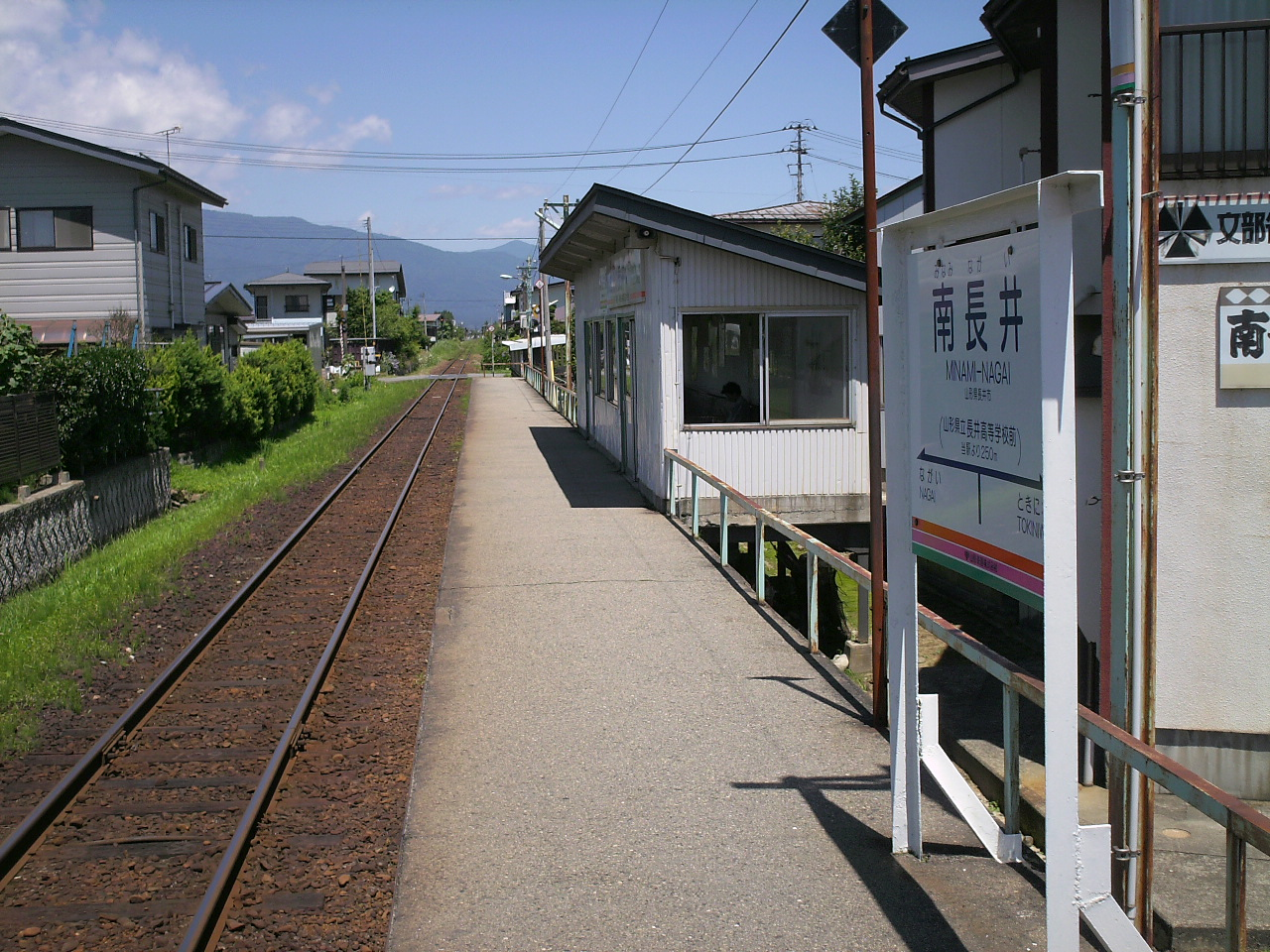 Platform of MinamiNagai Station. 南長井駅